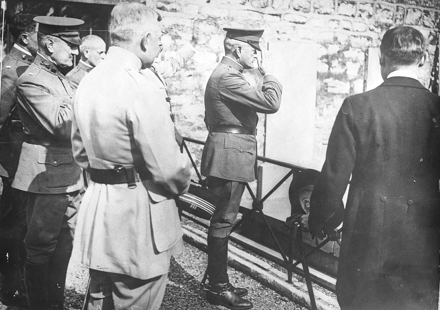 General John Pershing paying tribute at Lafayette's grave in Paris